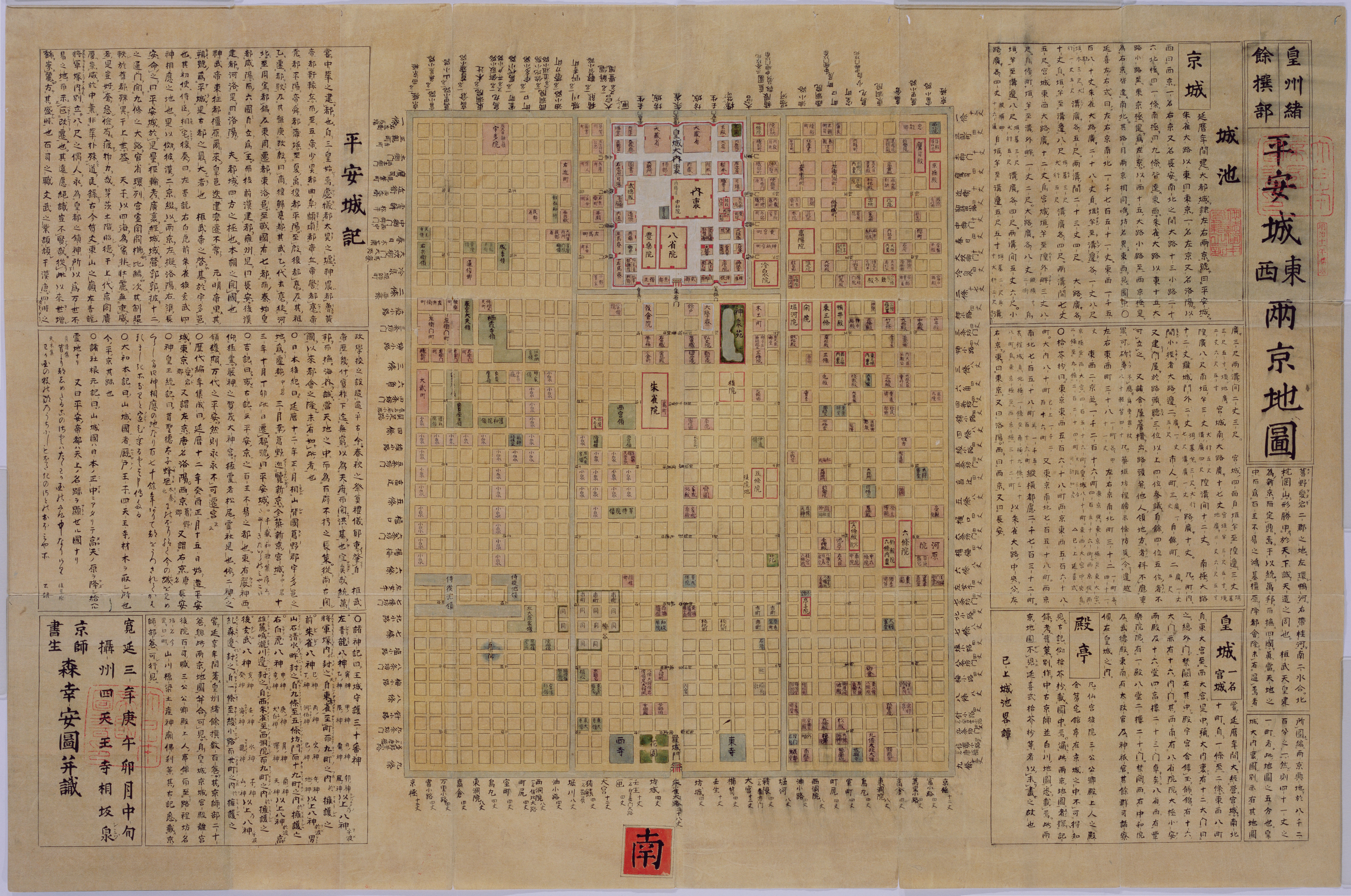 Plan of Heiankyo. Transcribed by Mori Koan in 1750.